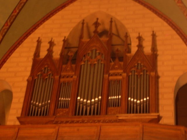 The organ in the "St Paul" Catholic church in Rousse, Bulgaria. A flash was used for the shot, with permission. The original image was scaled down to 25% in both dimensions using GIMP.